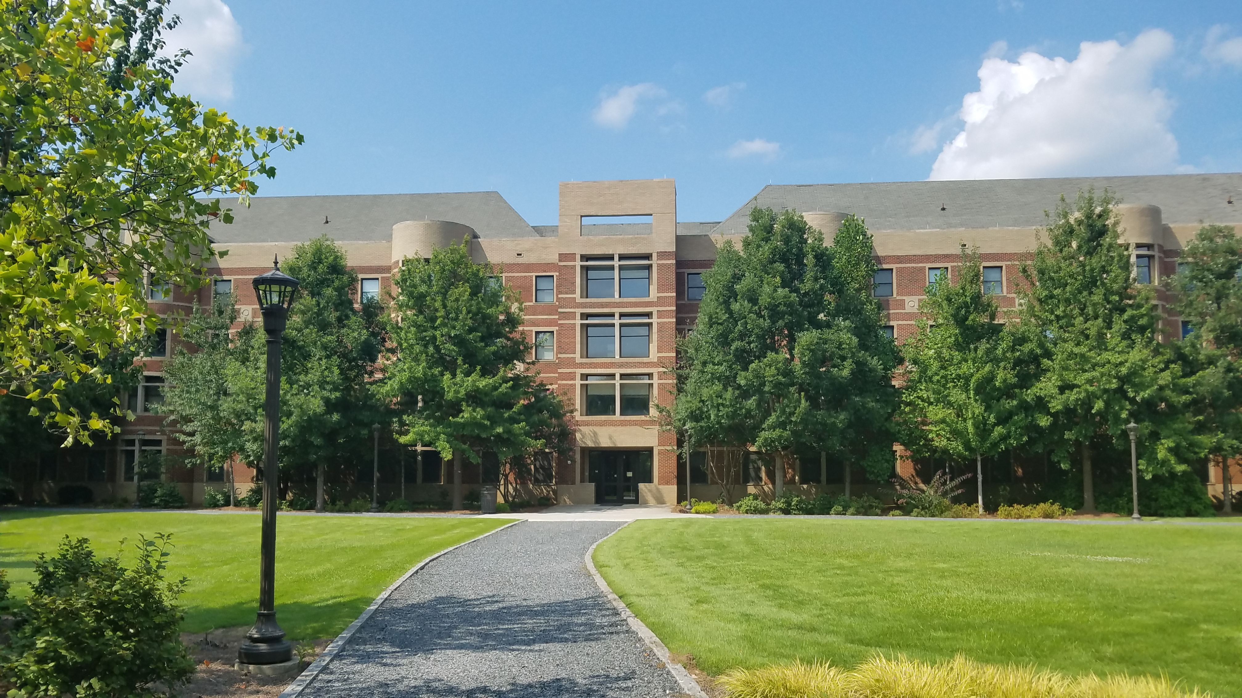 South building of Center Street Apartments on the main campus of the Georgia Institute of Technology, Atlanta, Georgia, USA